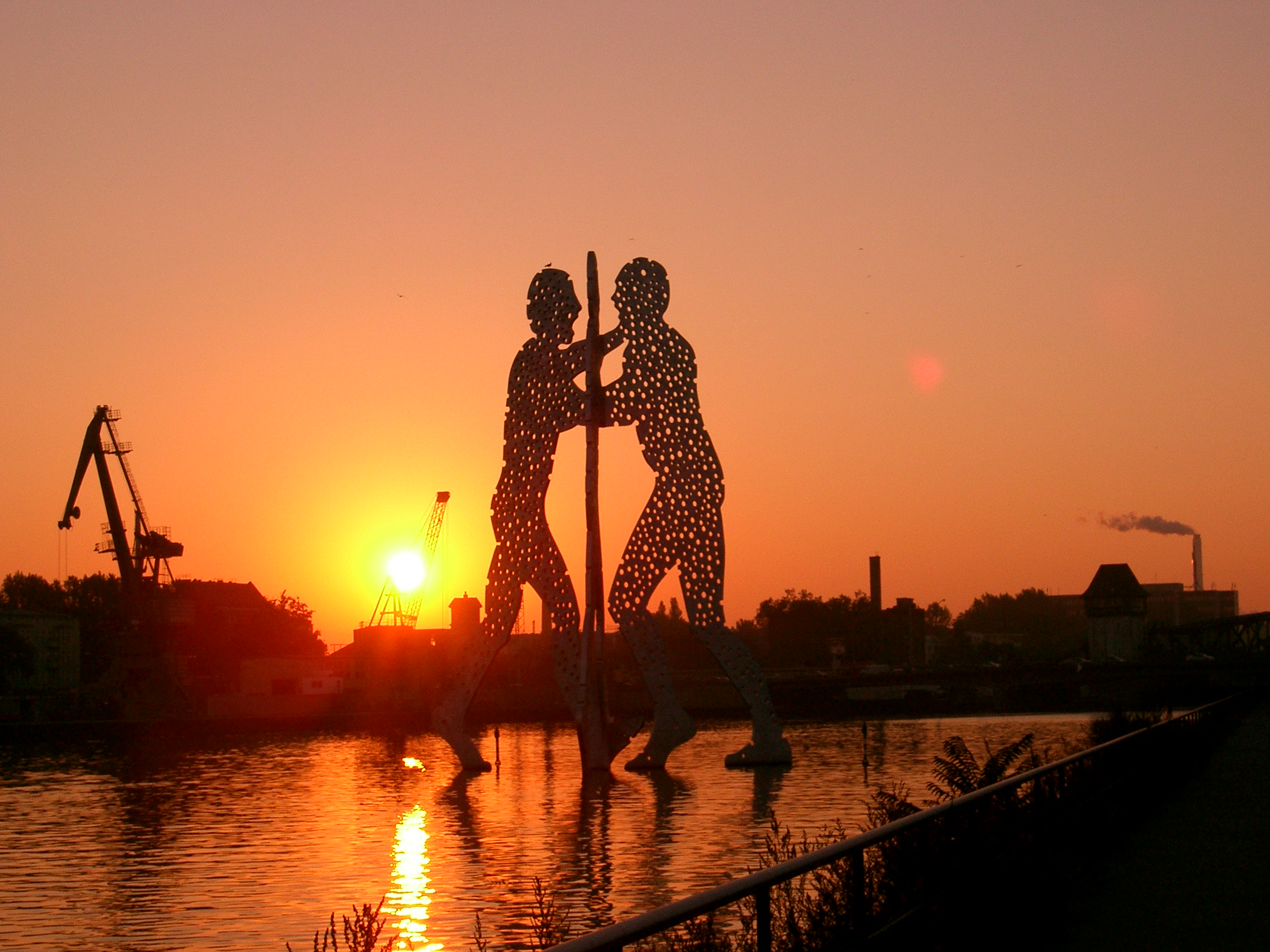 The Molecule Men in Berlin during sun rise.